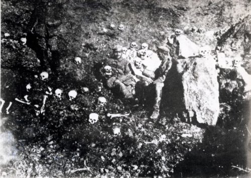 Soldiers playing with the skulls of Armenian victims of the Armenian Genocide